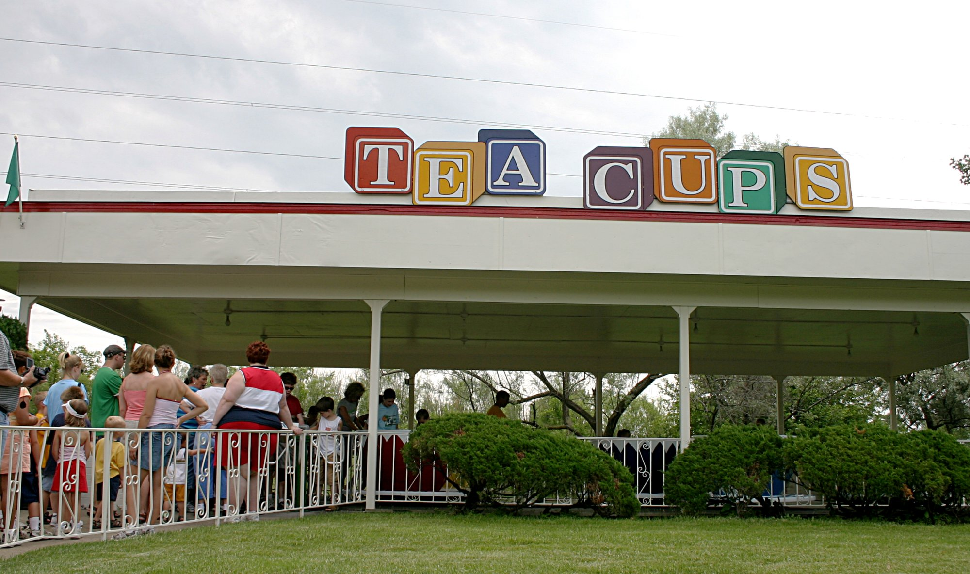 Tea Cups at Adventureland in Altoona, Iowa.